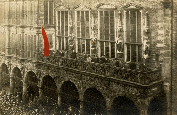 Proclamation of the Bremer Räterepublik (the revolutionary republic) in Bremen, Germany, on the 15th of november 1918 from the balcony of the town hall.